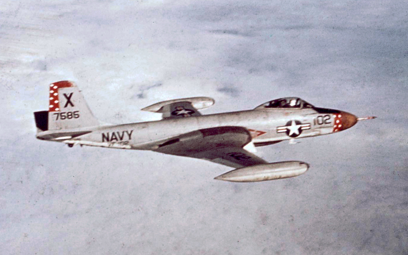 A U.S. Navy McDonnell F2H-4 Banshee (BuNo 127585) of Fighter Squadron 102 (VF-102) "Diamondbacks" in flight over the Mediterranean Sea. VF-102 was assigned to Air Task Group 202 (ATG-202) aboard the aircraft carrier USS Randolph (CVA-15) for a deployment to the Mediterrnean Sea from 14 July 1956 to 19 February 1957.